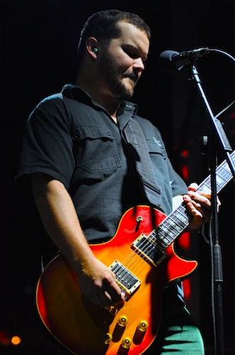 Steve Brooks of Torche and Floor - Live in Concert (photo by Scott Dudelson)